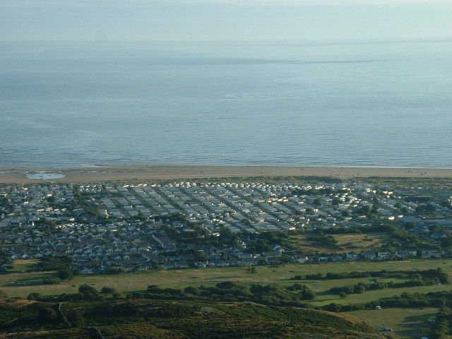 Black Rock Sands Caravan sites. An amazing density of holiday homes in a small space. Viewed from Moel y Gest, looking south.